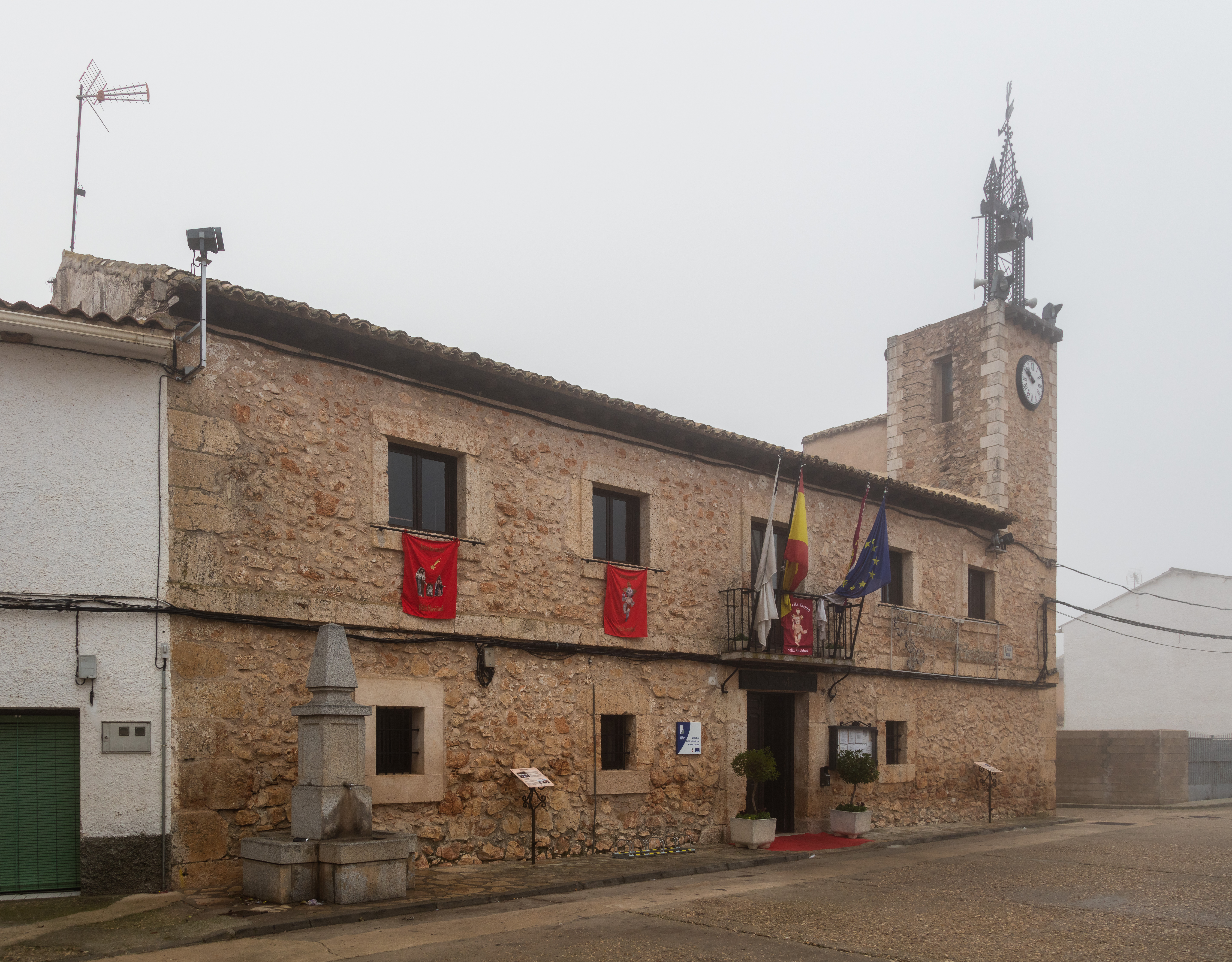 Town hall, Fuentenovilla, Guadalajara, Spain